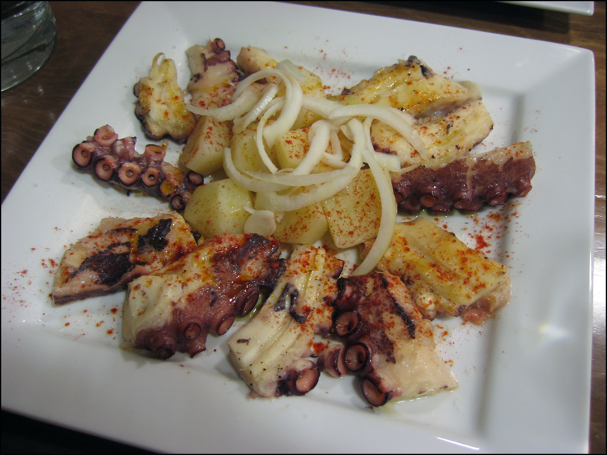 Polbo con cachelos. Galiza photo by ricardo / This photo is licensed under a Creative Commons license. If you use this photo within the terms of the license or make special arrangements to use the photo, please list the photo credit as "ricardo / " and link the credit to .